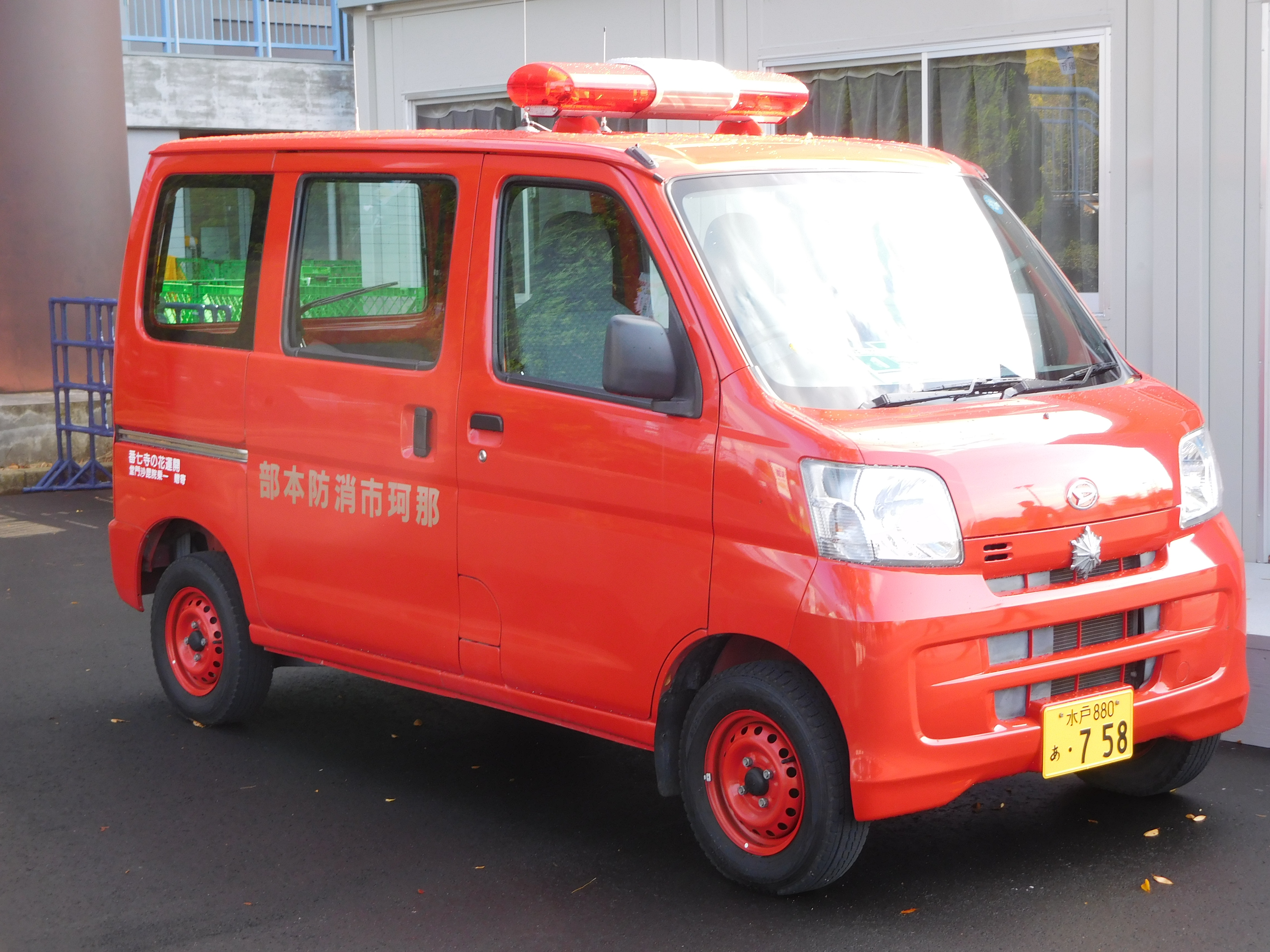 This is a PR vehicle owned by Naka city fire department. It was taken at Kasamatsu Sports Park Athletic Field, City of Naka, Ibaraki, Japan.